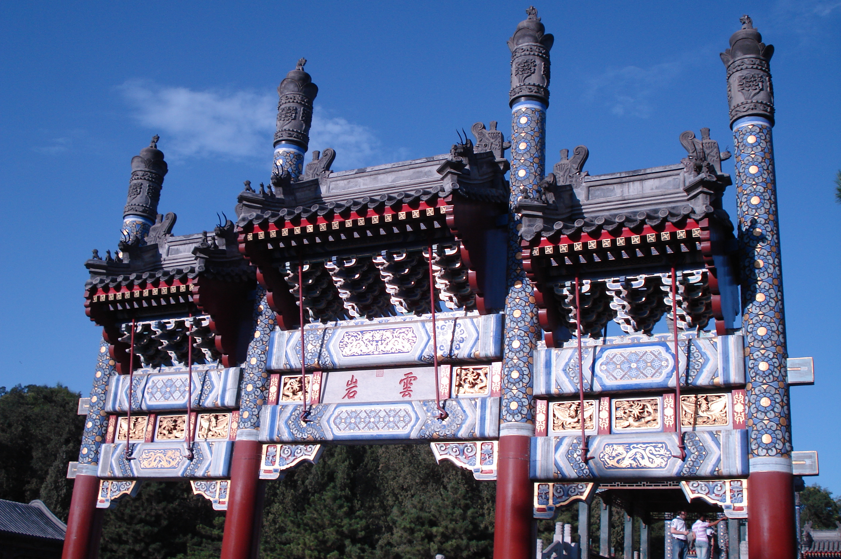 A decorated Paifang in the Summer Palace in Beijing.